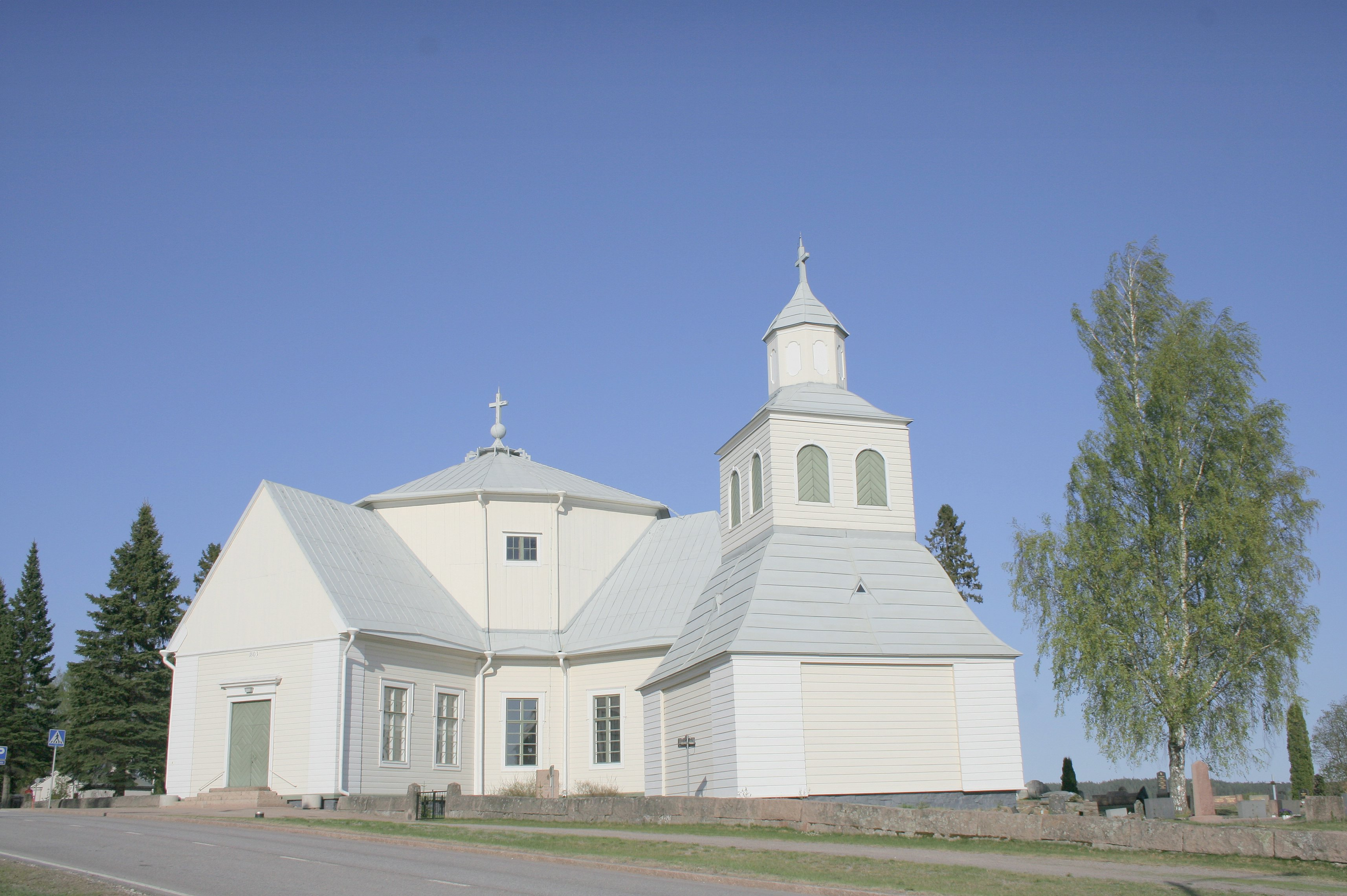 Myrskylä Church in Myrskylä, Finland. The wooden church was built in 1803. It is an Evangelic Lutheran church of the parish of Myrskyla.